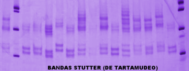 Stutter bands in PCR (polymerase chain reaction)